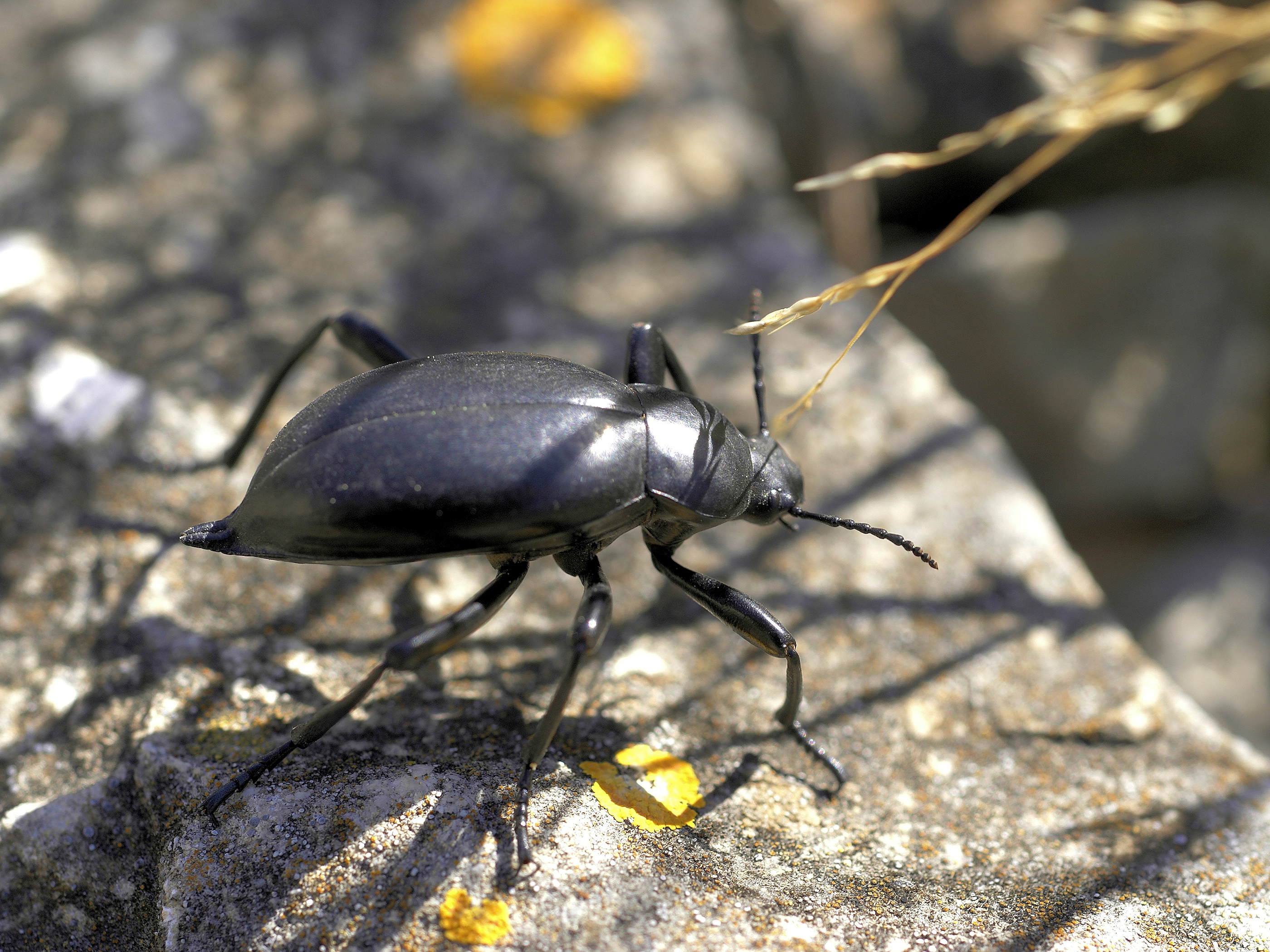 Near el Perelló, Catalonia, Spain